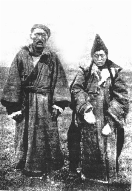 The founder of Burkhanism Chet Chelpanov with wife Kul